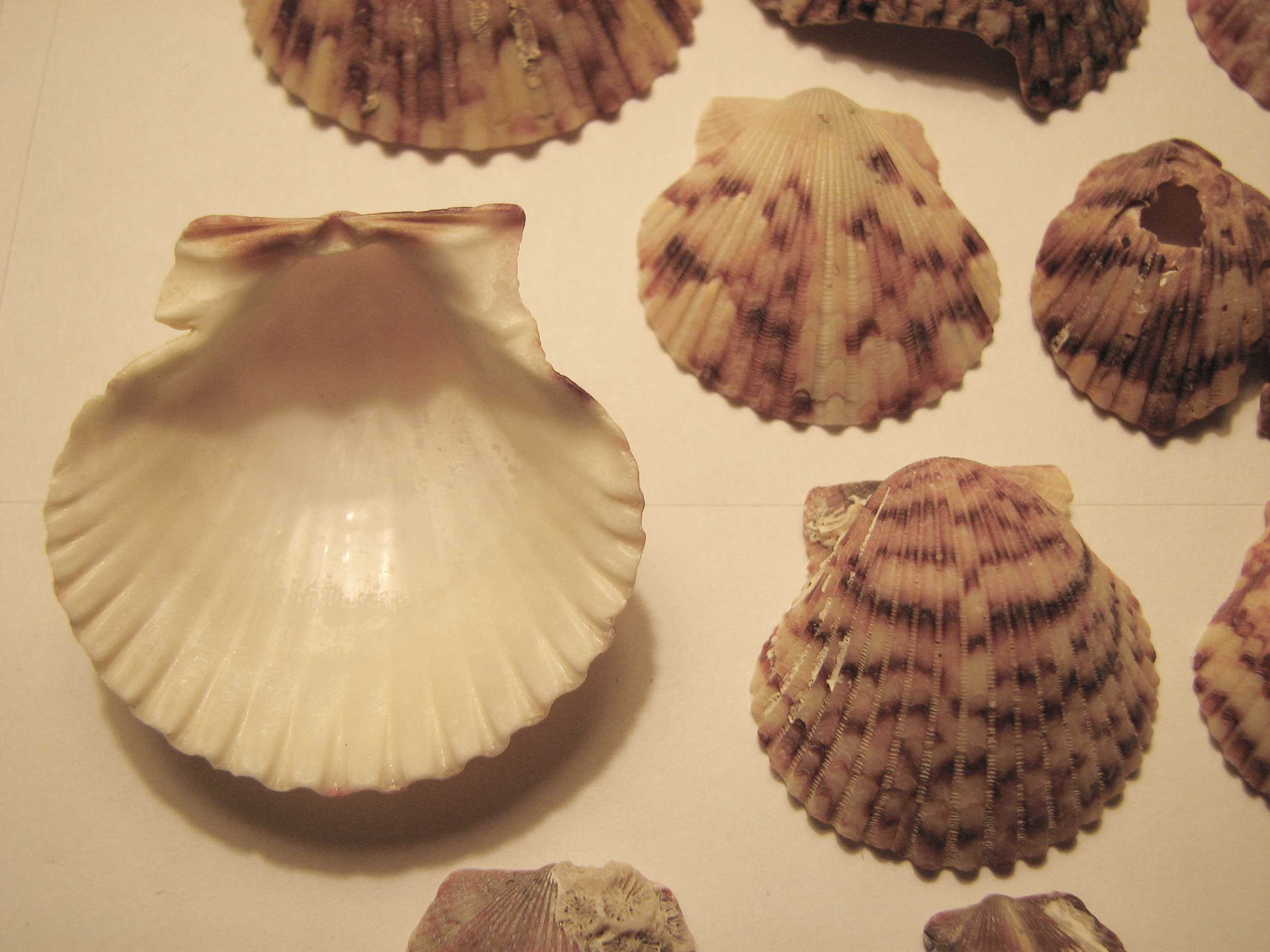 Atlantic calico scallop, Argopecten gibbus (Linnaeus) Atlantic Calico Scallop